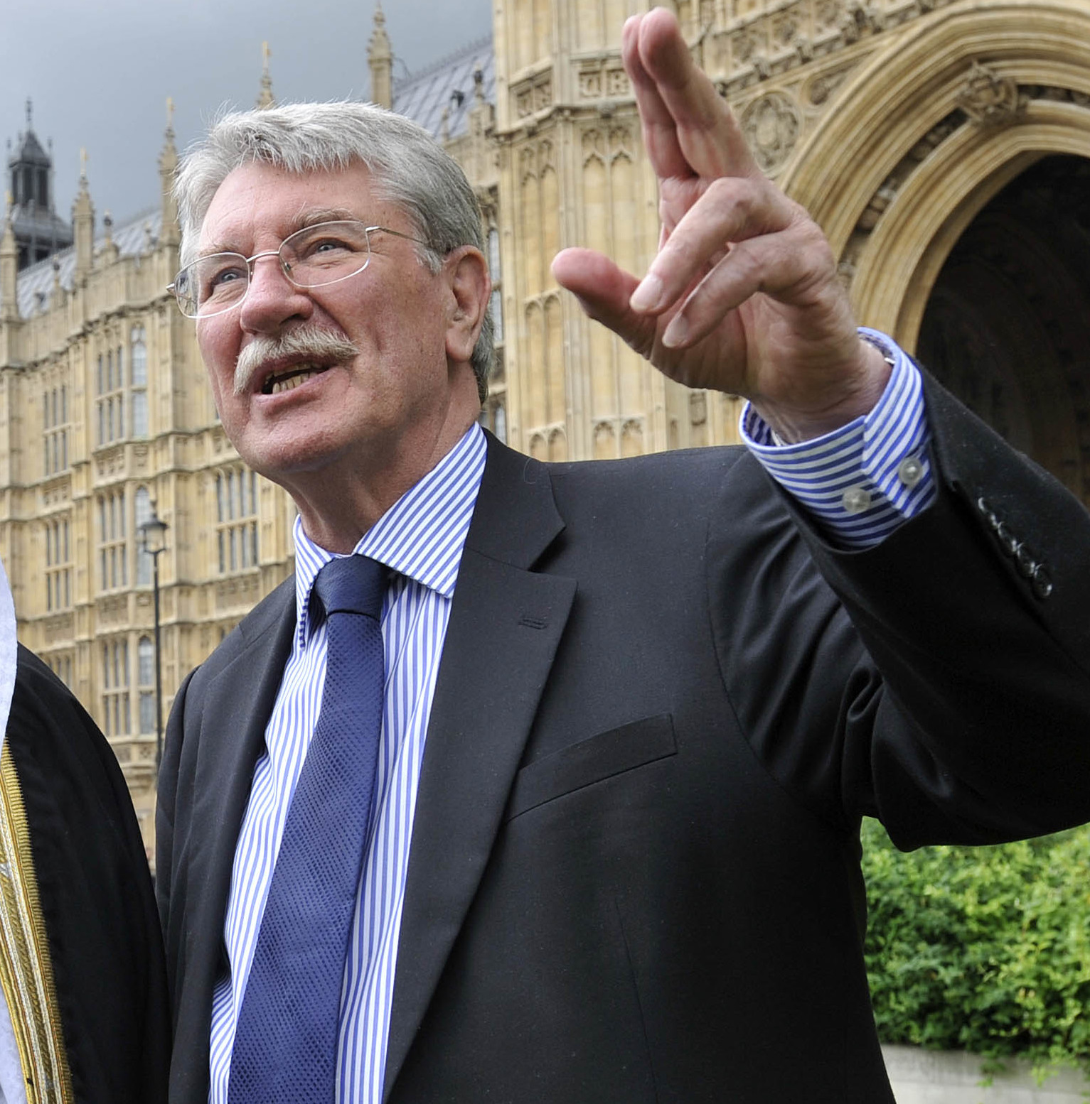 Khalid Abdul Rahim and Gus Macdonald, Baron Macdonald of Tradeston